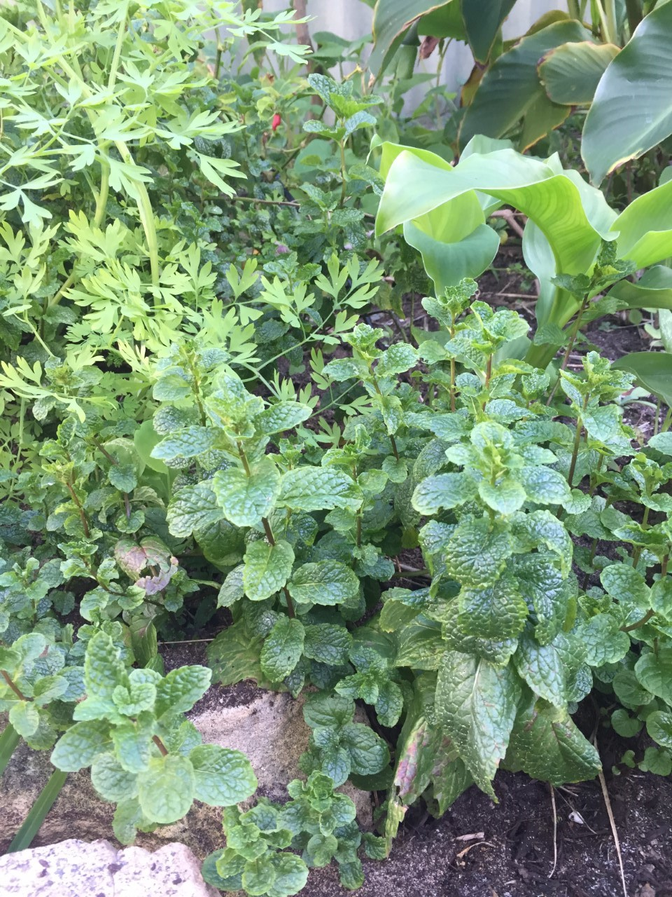 Backyard Herb Garden